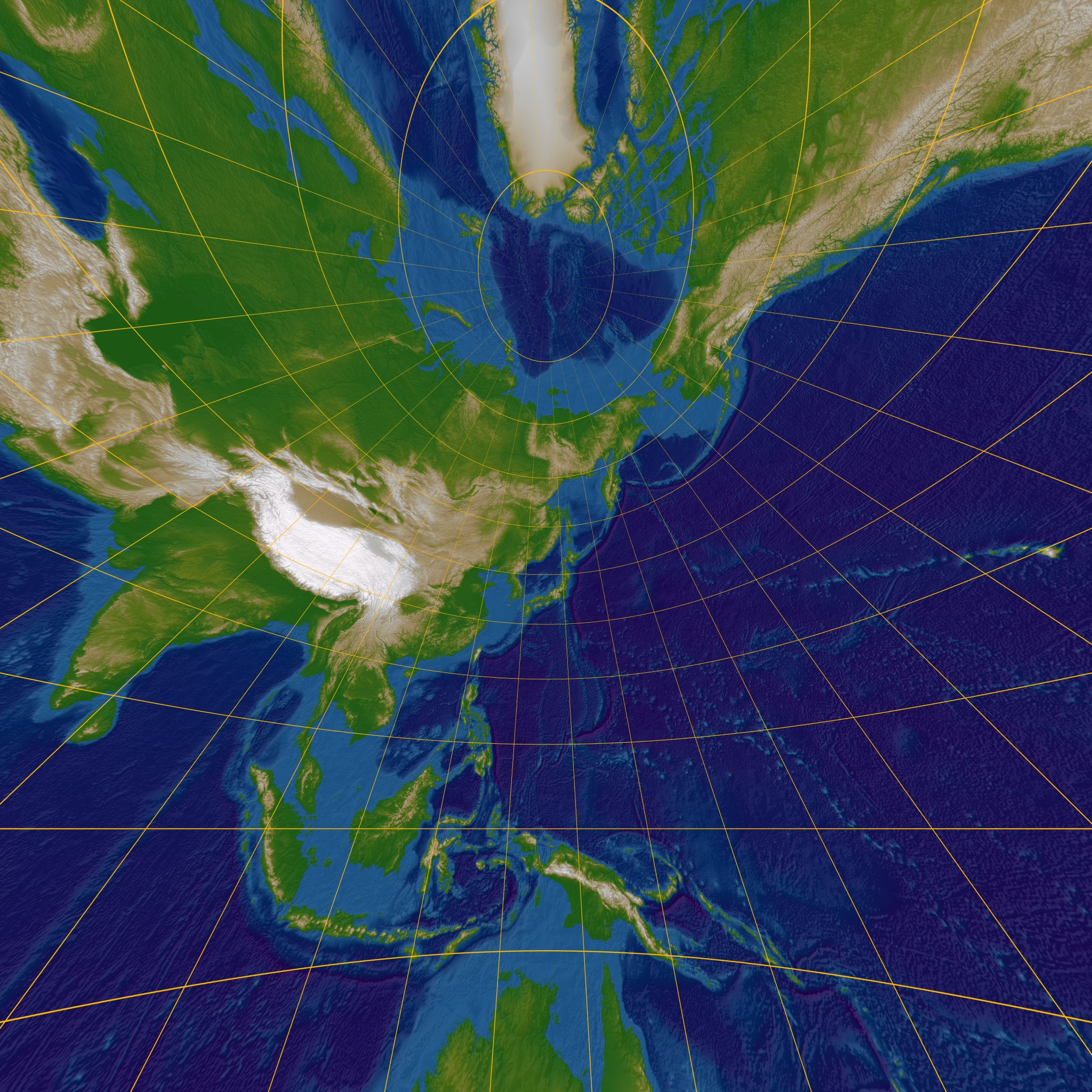 Oblique gnomonic projection. Map center is in Japan, at 135°30' E, 36° N.